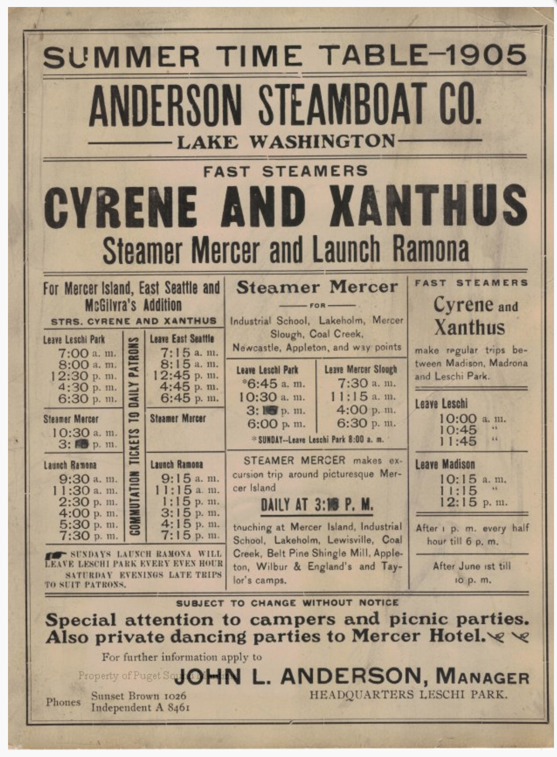 Anderson Steamboat Company 1905 Time Table, showing routes for steamers Cyrene, Xanthus, and Mercer, and launch Ramona. From the collection of the Puget Sound Maritime Historical Society.